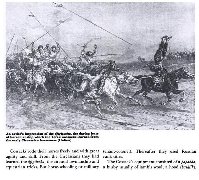 Equestrian tricks